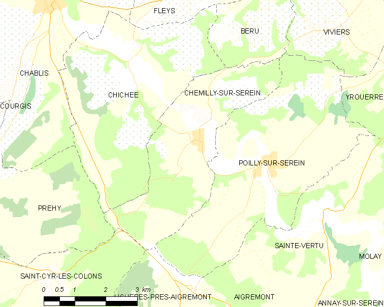 Map of French municipality Chemilly-sur-Serein